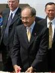 U.S. Ambassador Ralph Boyce and Thailand Foreign Minister Nitya Pibulsonggram at a DART launch ceremony. (Photo: Sonsakon Kitwiboon)